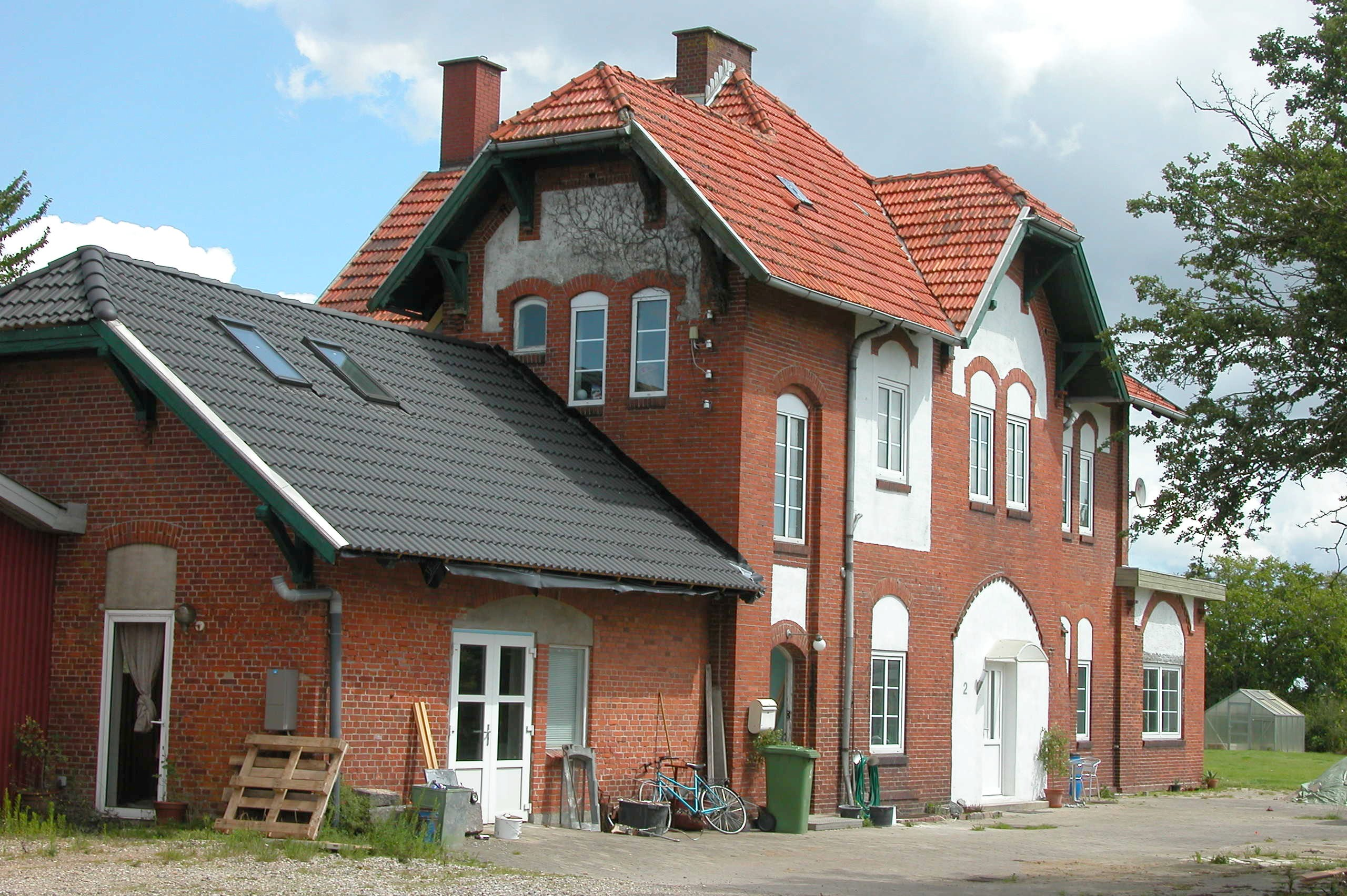 Avnbøl Station - Denmark